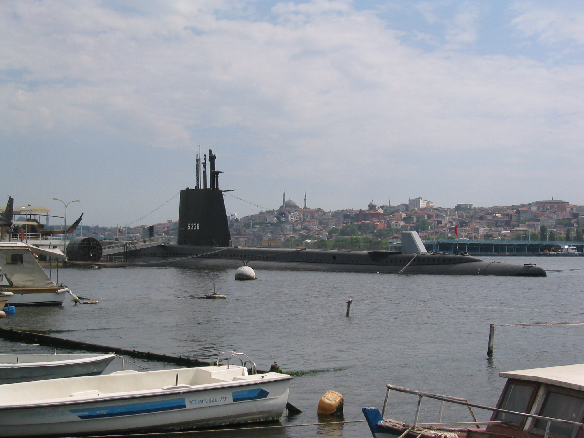 The Turkish Tench-class submarine TCG Uluçalireis (S 338), now a museum ship, on display in the Golden Horn in Istanbul. Digital photo taken by Jll on 26 May 2006.